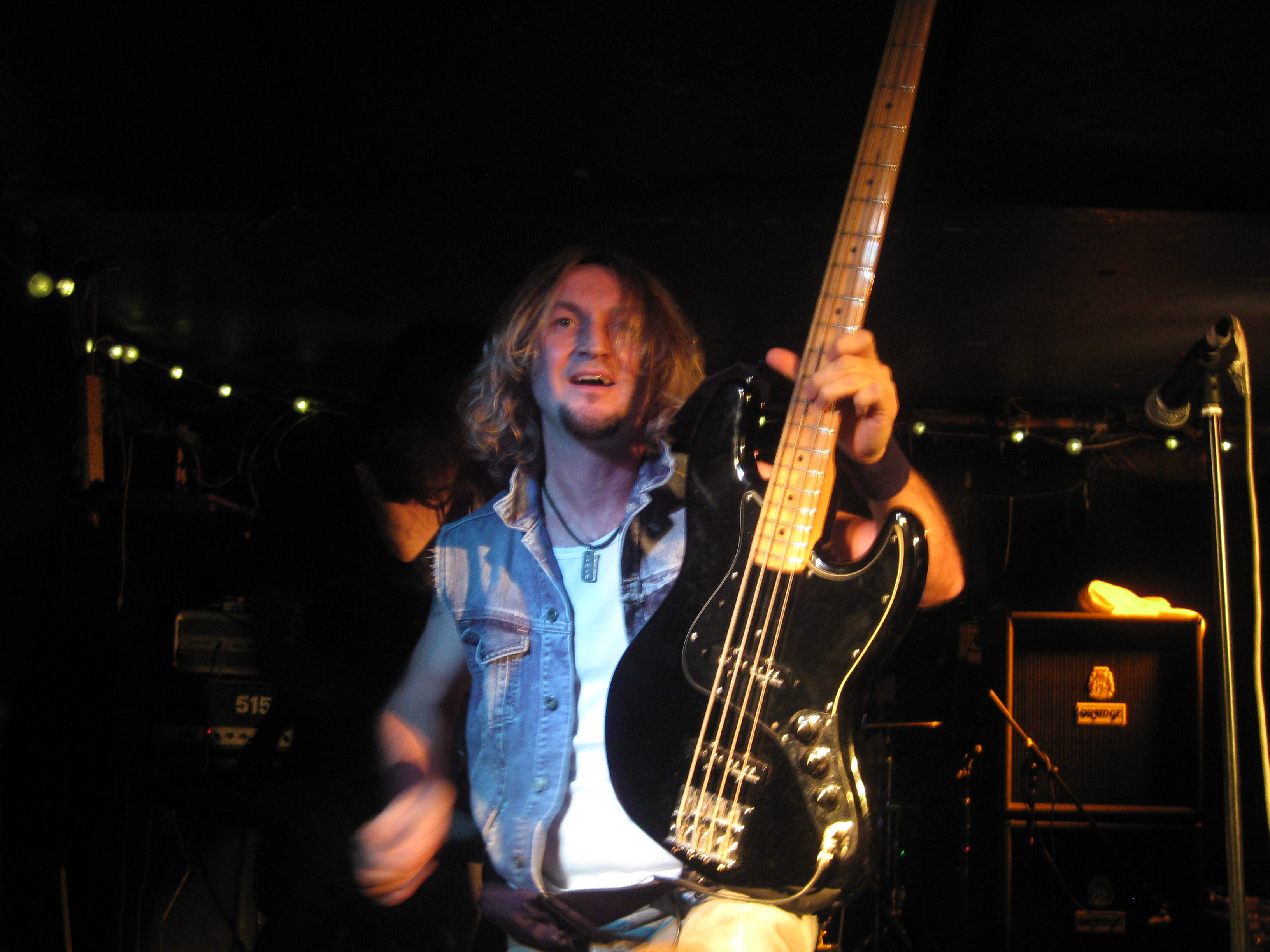 Bassist Tony Newton pictured performing on stage with British rock band Voodoo Six at Exeter Cavern on 21st November 2011.